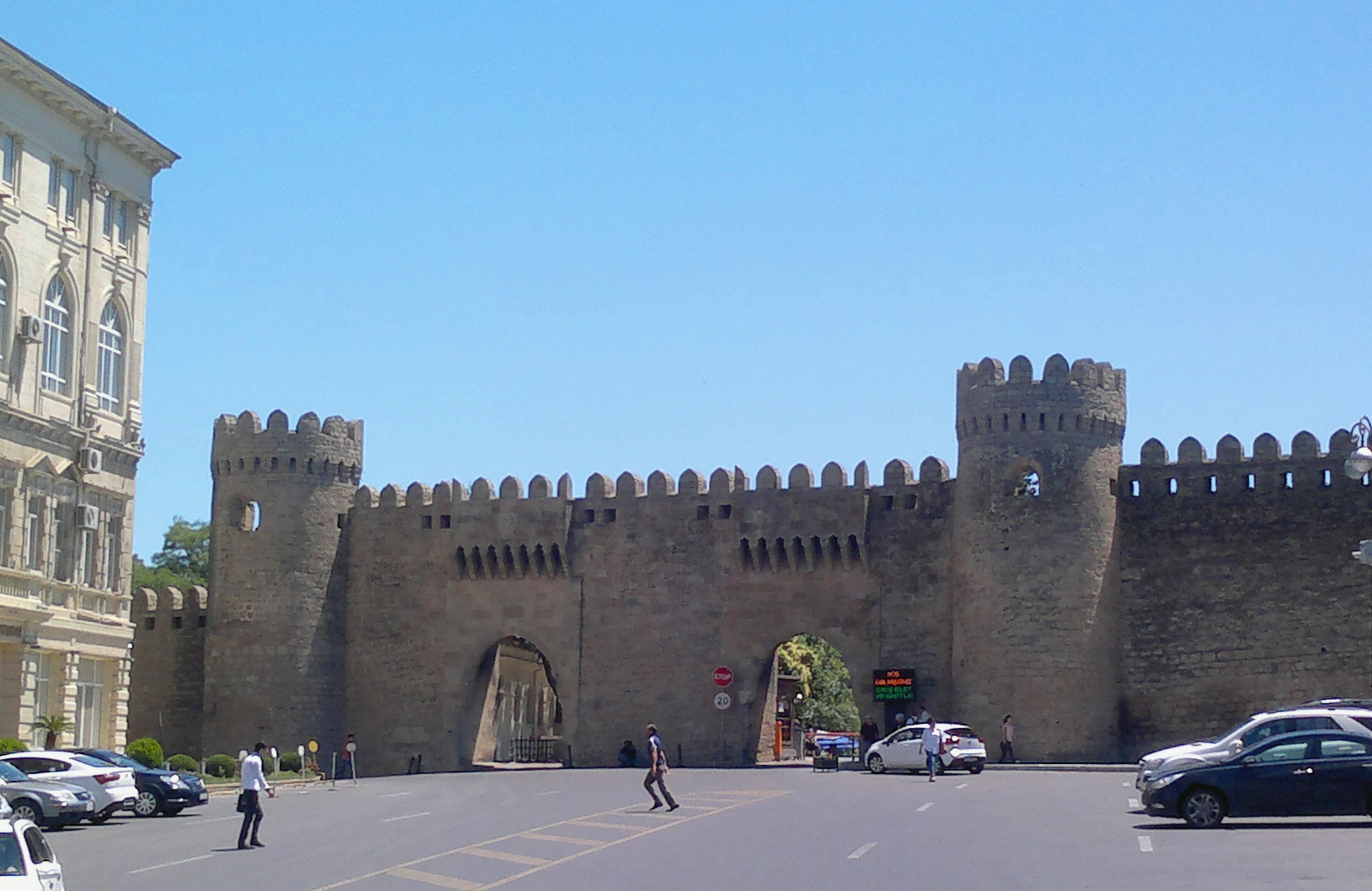 Shamakhi gates of the Fortress of Baku. Built in the 15th century.